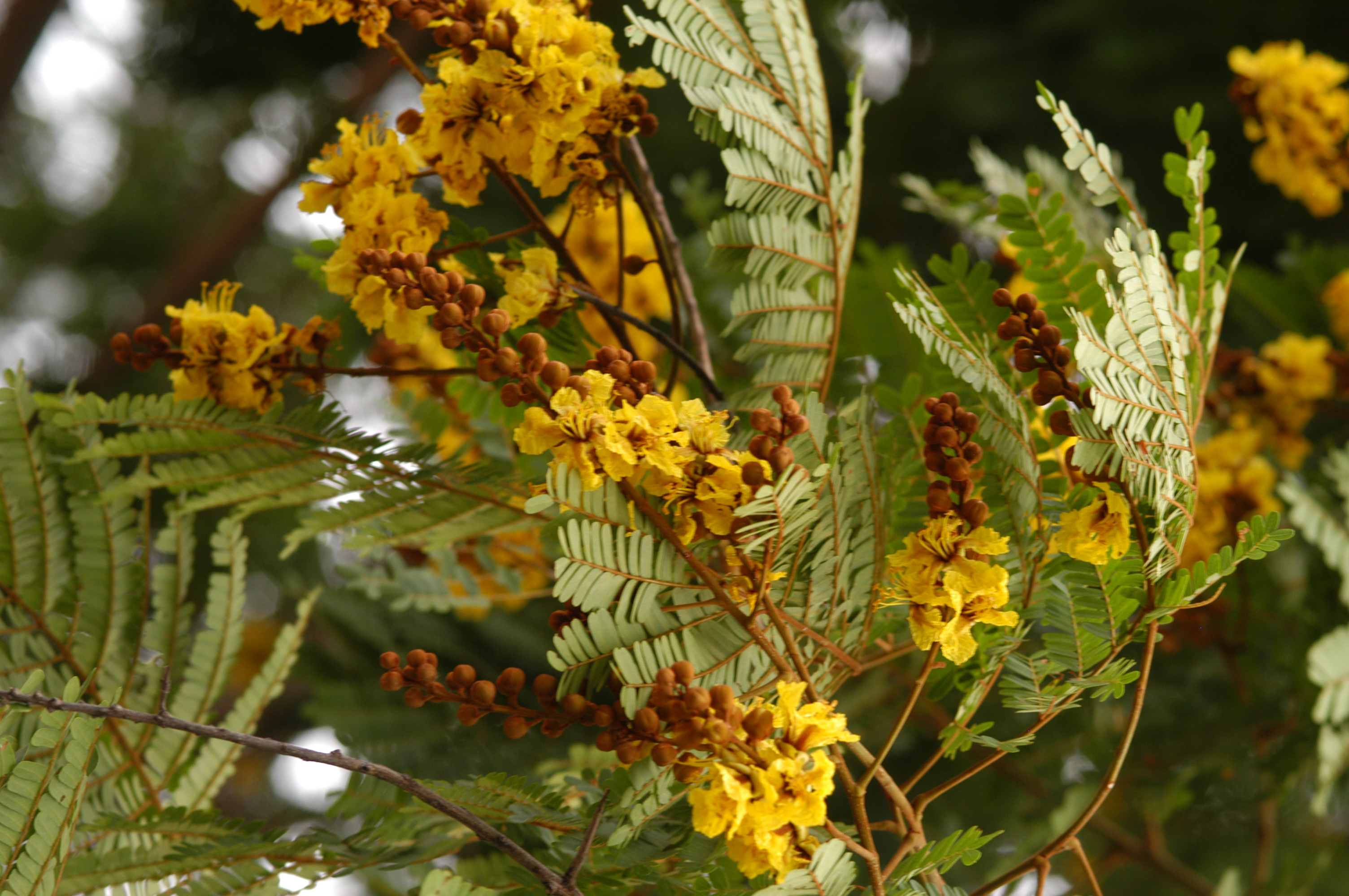 Peltophorum pterocarpum